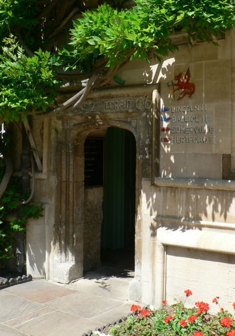 Doorway to staircase XII, Jesus College, Oxford. Chalk markings celebrate the success of the Men's 2nd XIII in the 2006 Torpids.